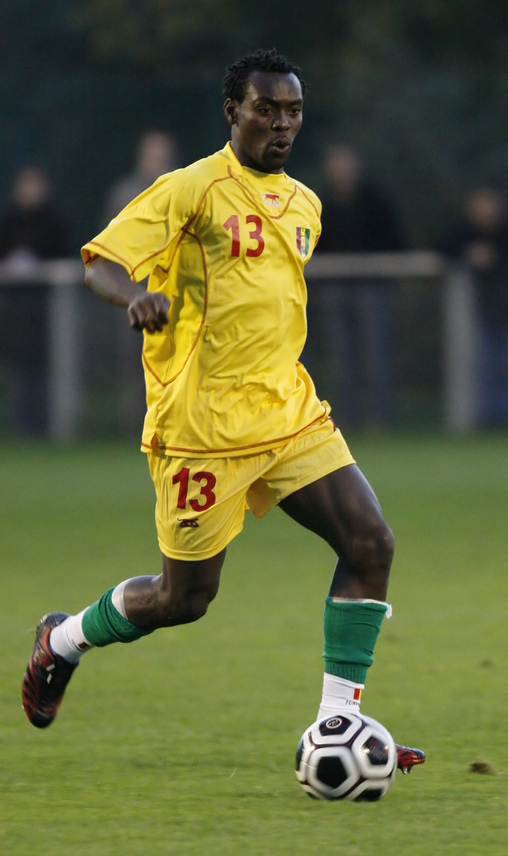 Pascal Feindouno, Guinean football player, during Guinean national team friendly match against the Stade Rennais youth team